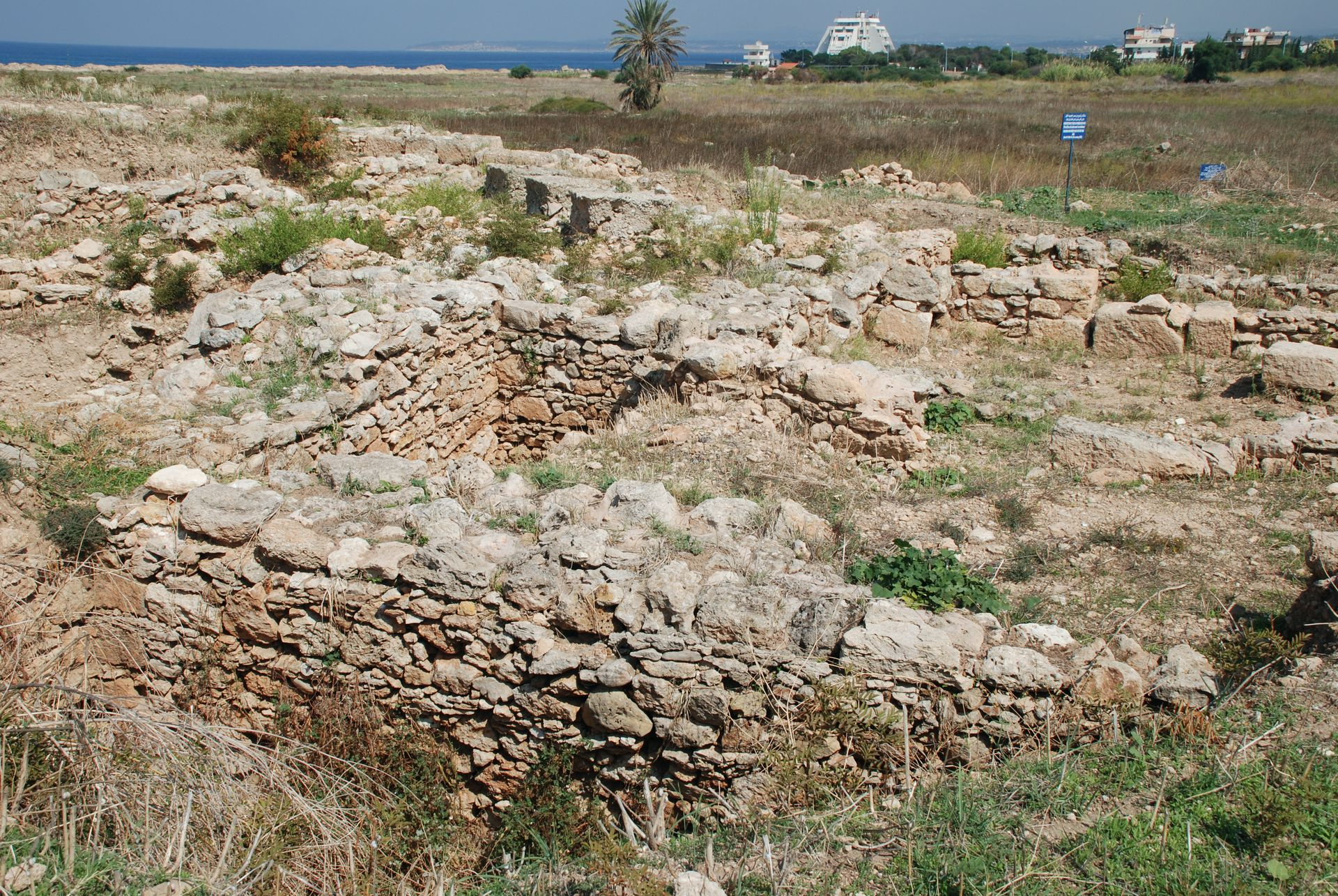 Ras Ibn Hani near Ugarit, Syria. South palace towards east